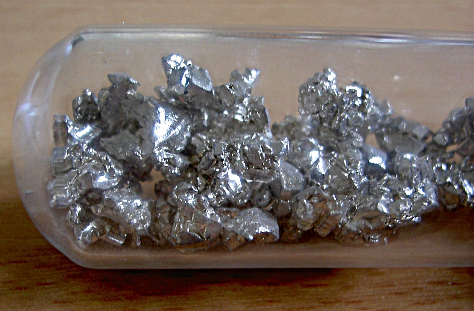 Pure calcium in a protective argon atmosphere